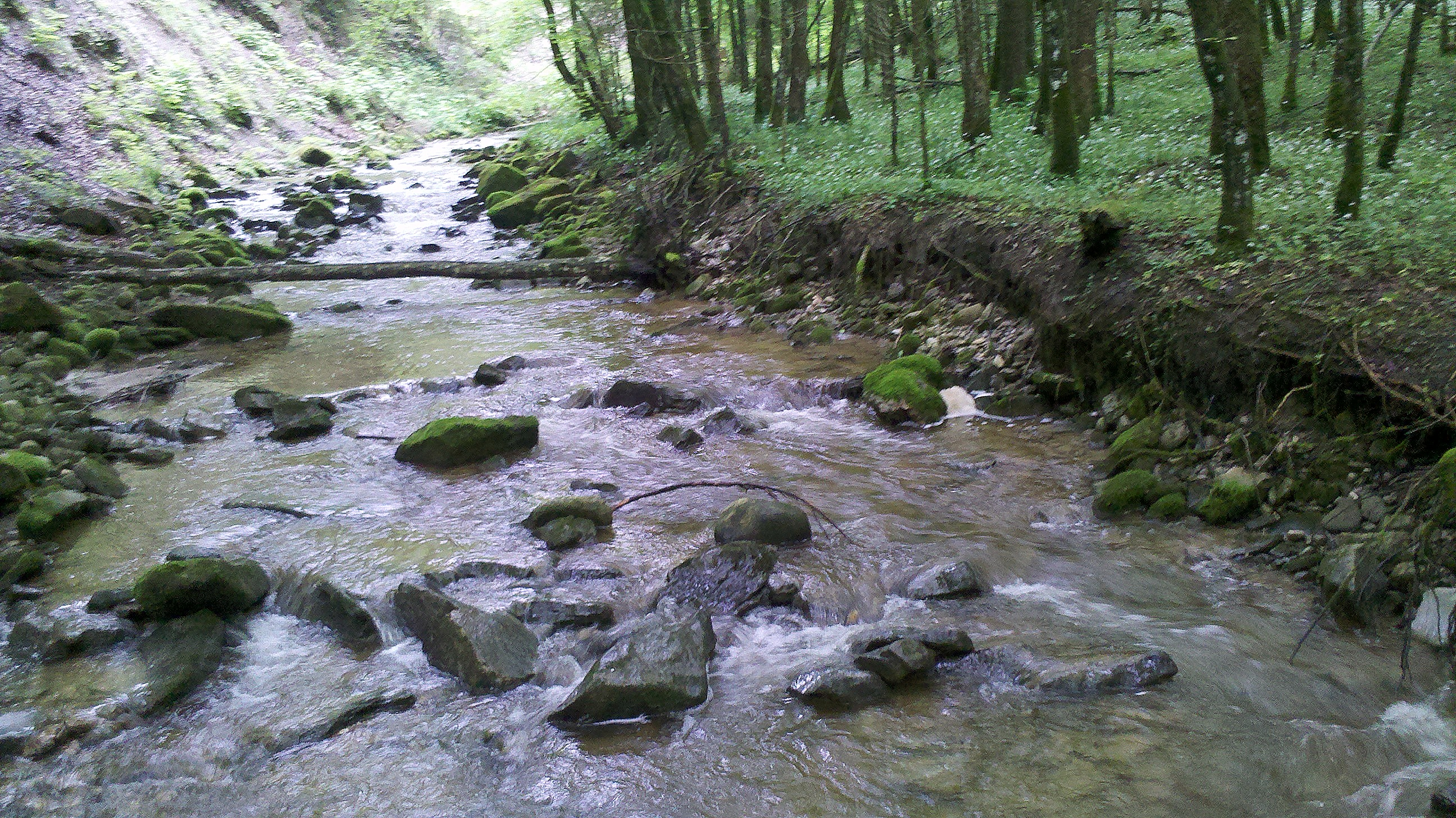 Talbach (Ammer), Germany, kurz vor der Mündung in die Ammer.